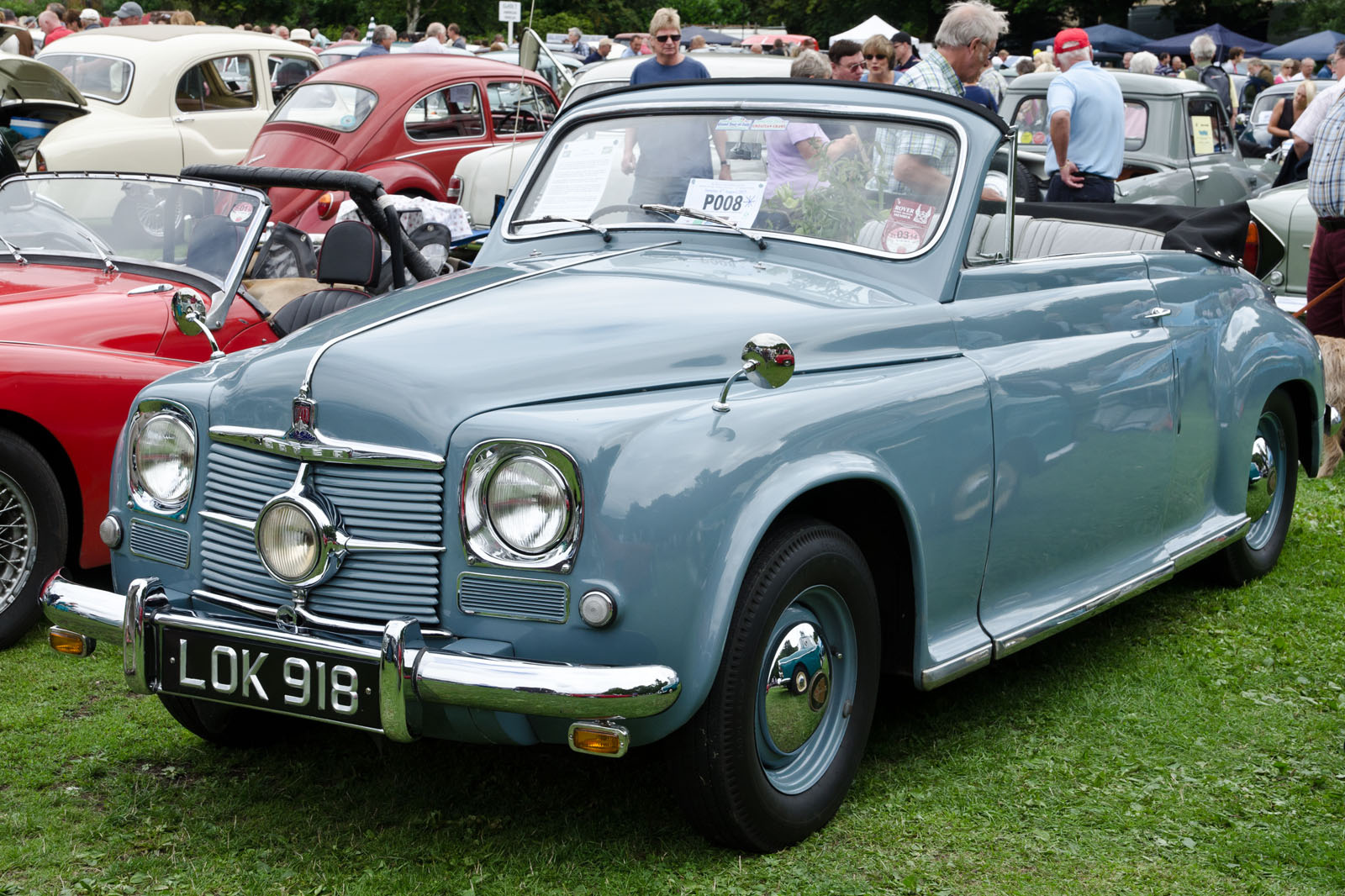 1950 Rover 75 drophead coupé by Tickford Hebden Bridge Vintage Weekend